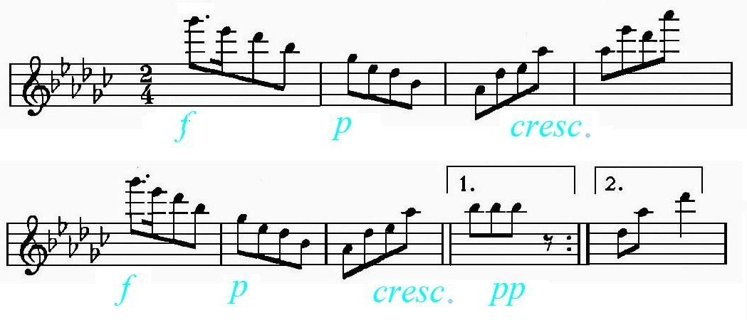 Chopin Etude Op. 10, No. 5: melodic reduction in form of a Scottish jig after Hugo Leichtentritt (A section)